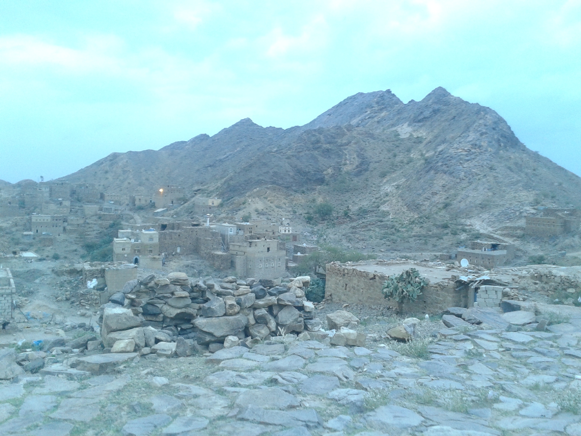 Alkhadra village and ruins — in the mountains of Al A'rsh & Rada' Districts. Located within the Al Bayda' Governorate, of southwestern Yemen.